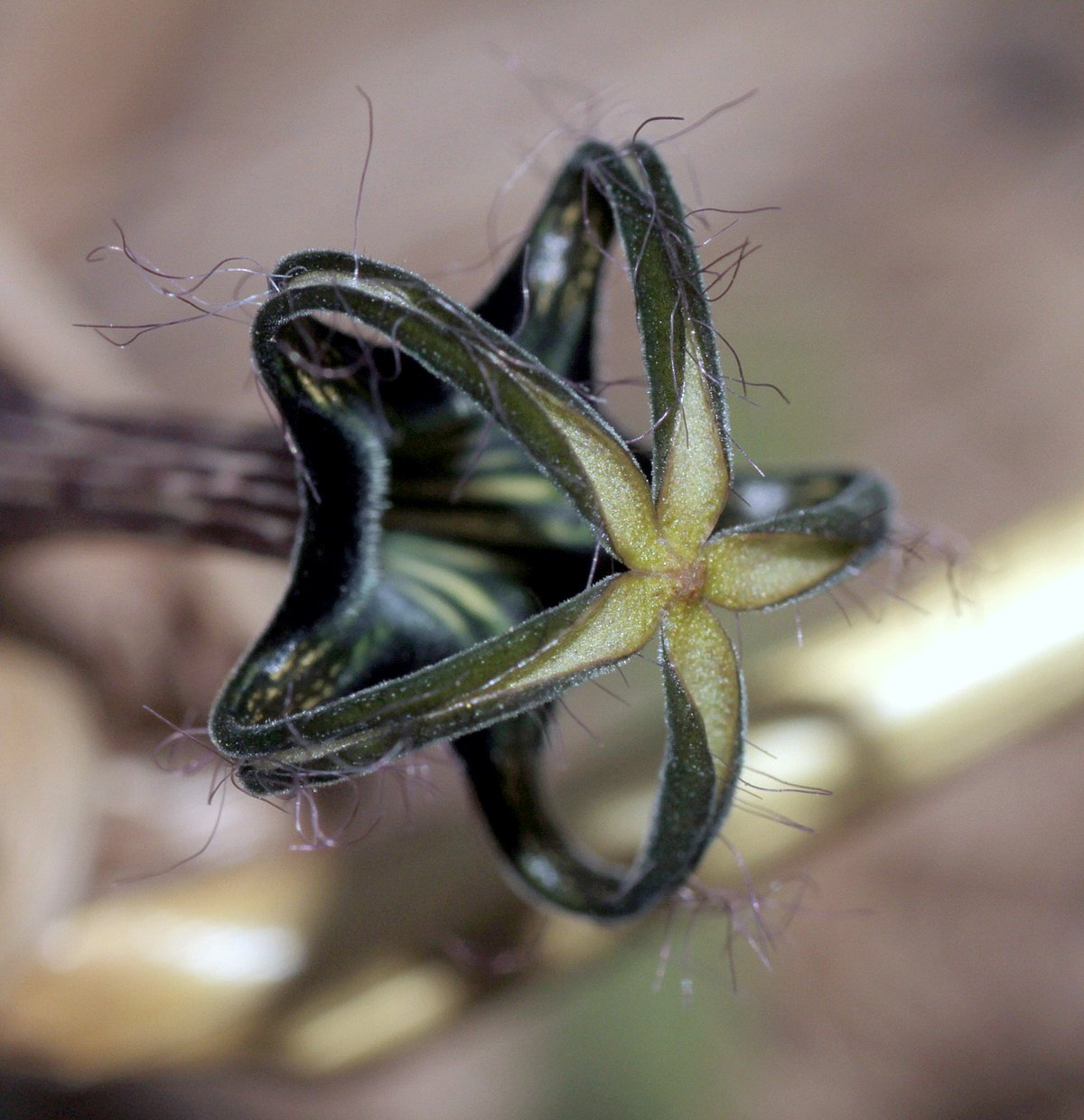 South Africa, Vernon Crookes Nature Reserve.